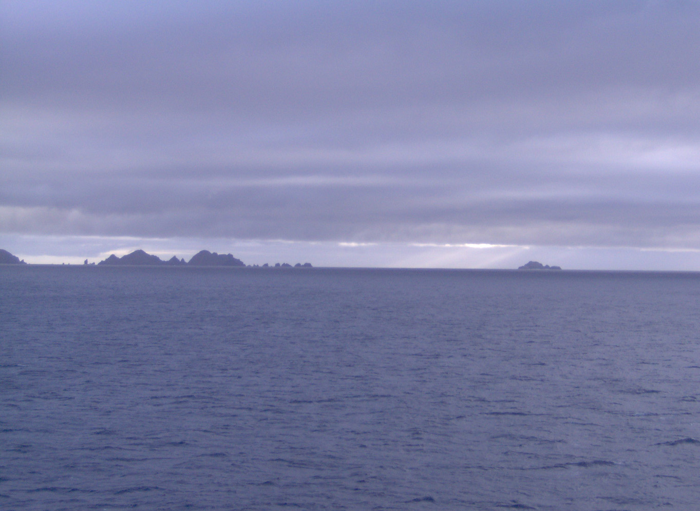 Deceit teeth and Islote Deceit, in Hermite Islands, Chile, seen Northeastwards from Hornos Island